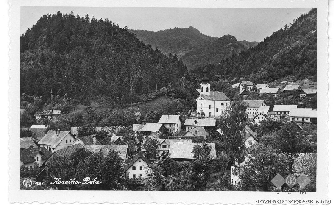 Postcard of Koroška Bela